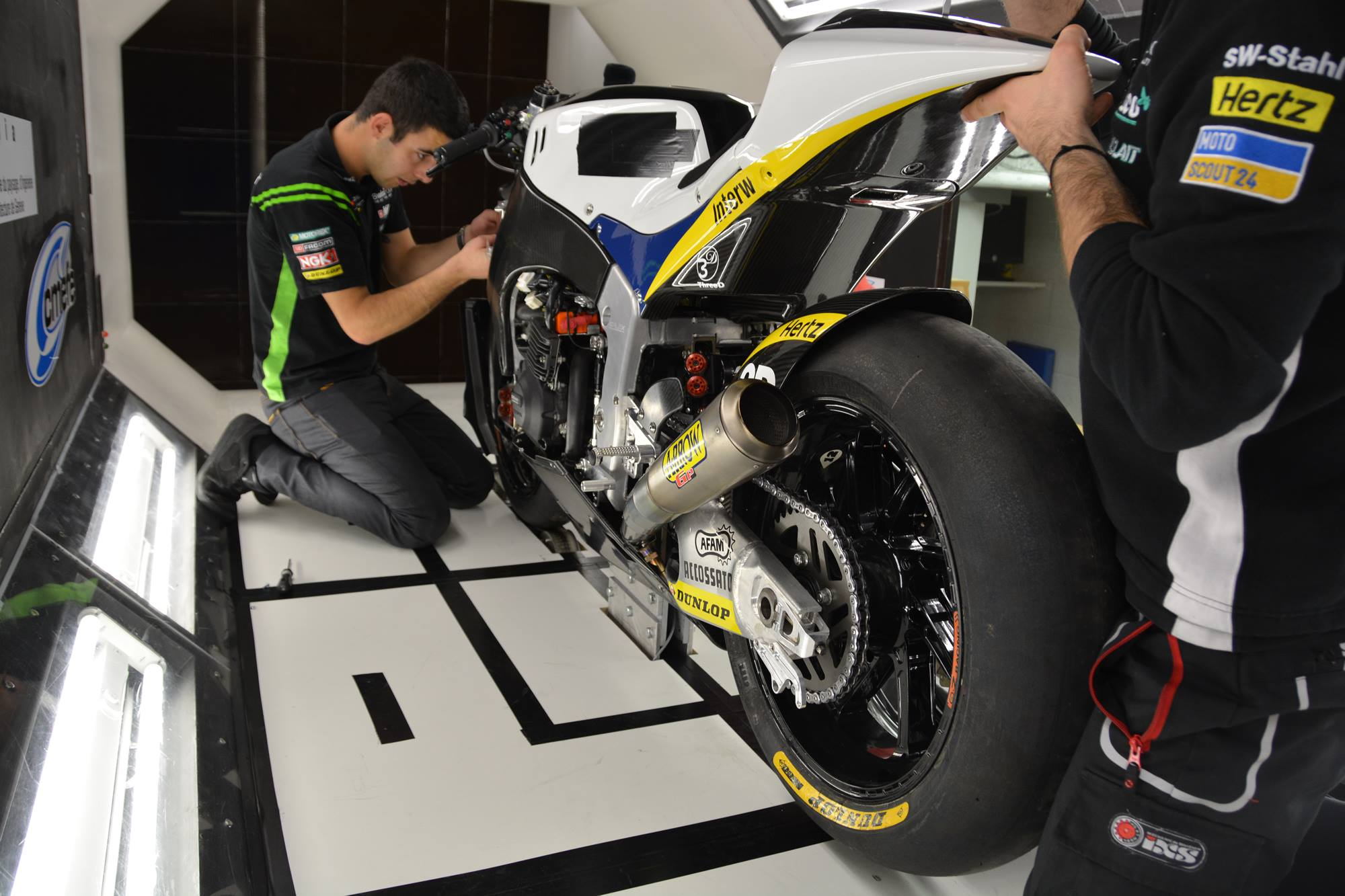 Wind tunnel tests of the Kalex Moto2 in the hepia Geneva Wind Tunnel